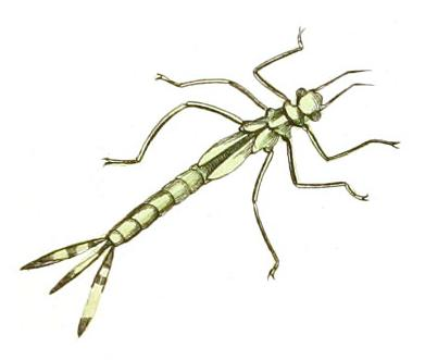 Dragonflies (Odonata): 1--nymphs (naiads) of damselflies (Zygoptera)